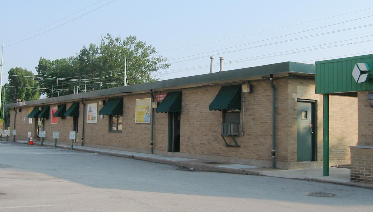 Photo of Ardmore train station in Ardmore, Pennsylvania.